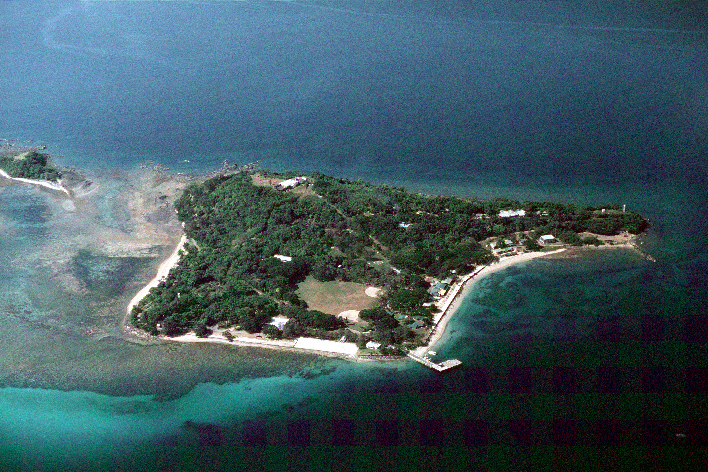 An aerial view of the Grande Island recreational facility. Location: NAVAL STATION, SUBIC BAY, LUZON PHILIPPINES (PHL)